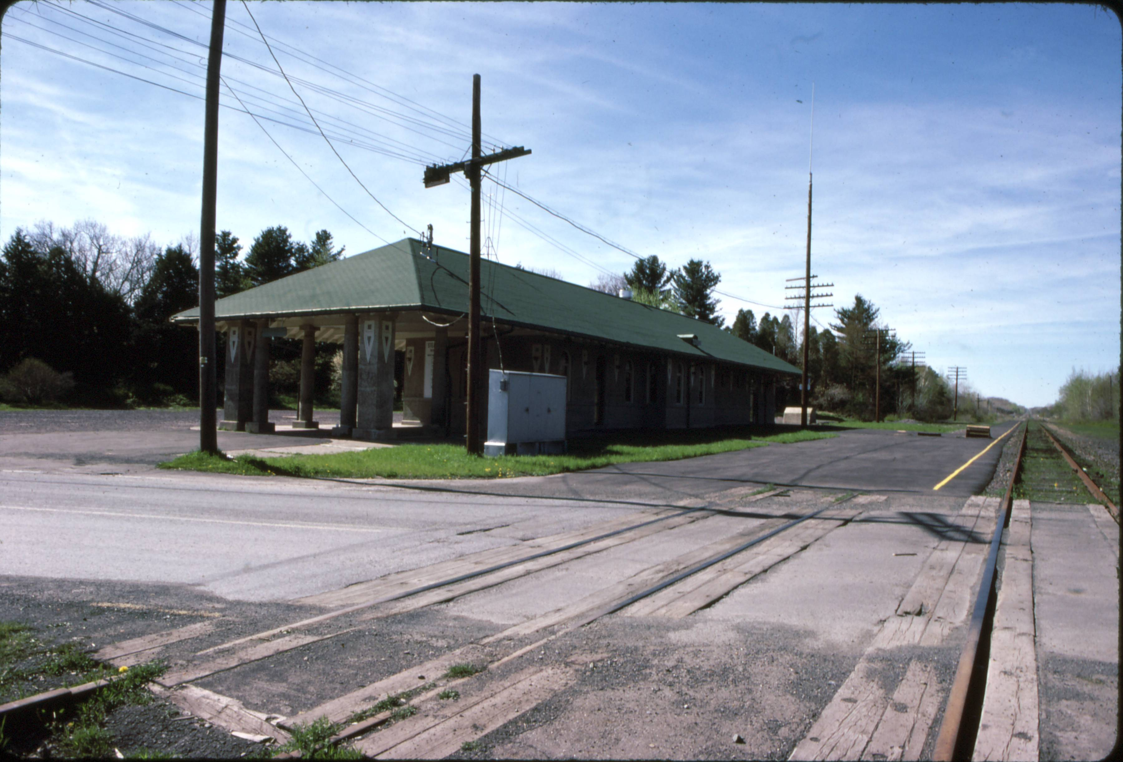 Chuck Walsh, 1988